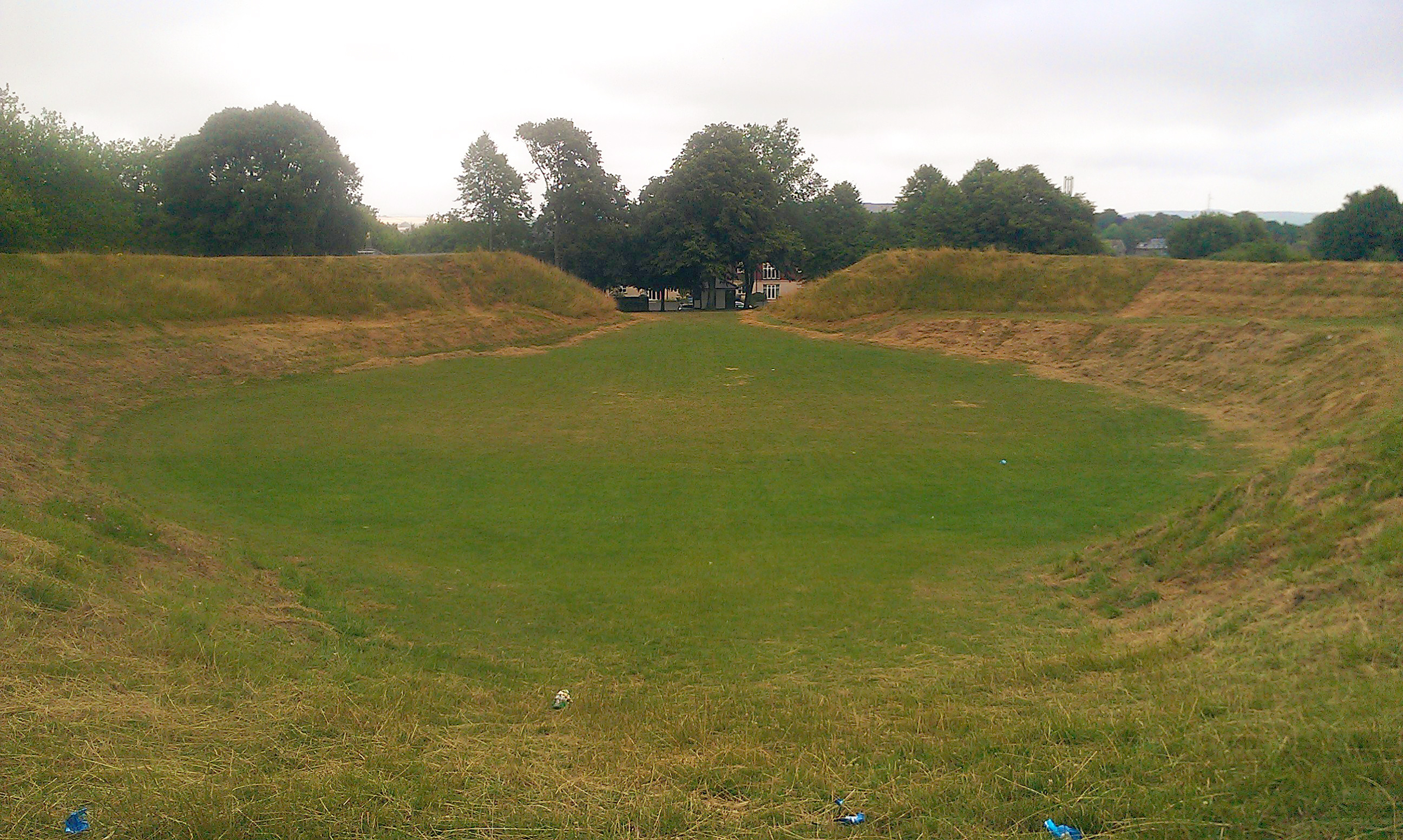 The centre of Maumbury Rings, in Dorchester, Dorset.